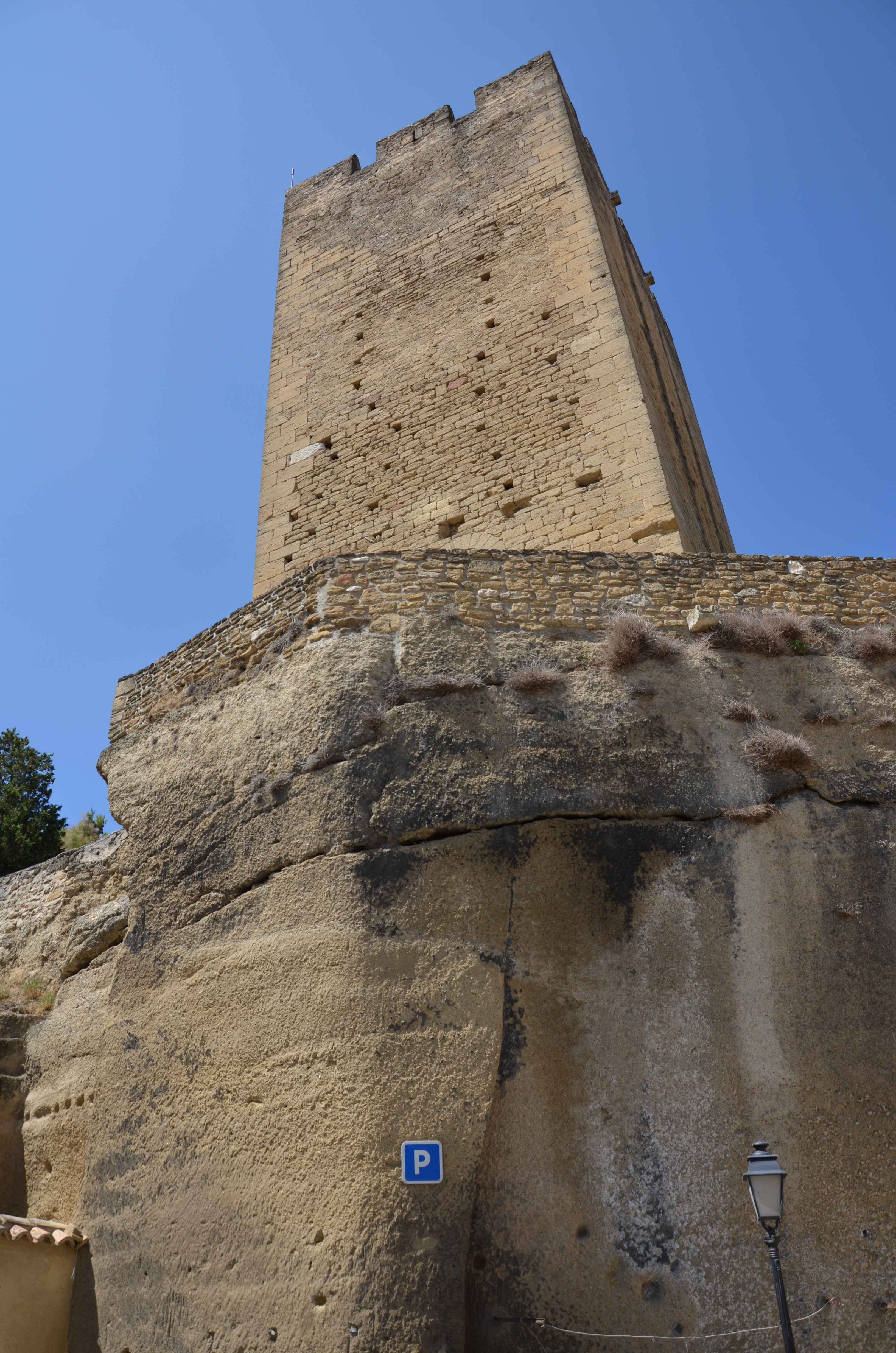 Tour templiers entraigues